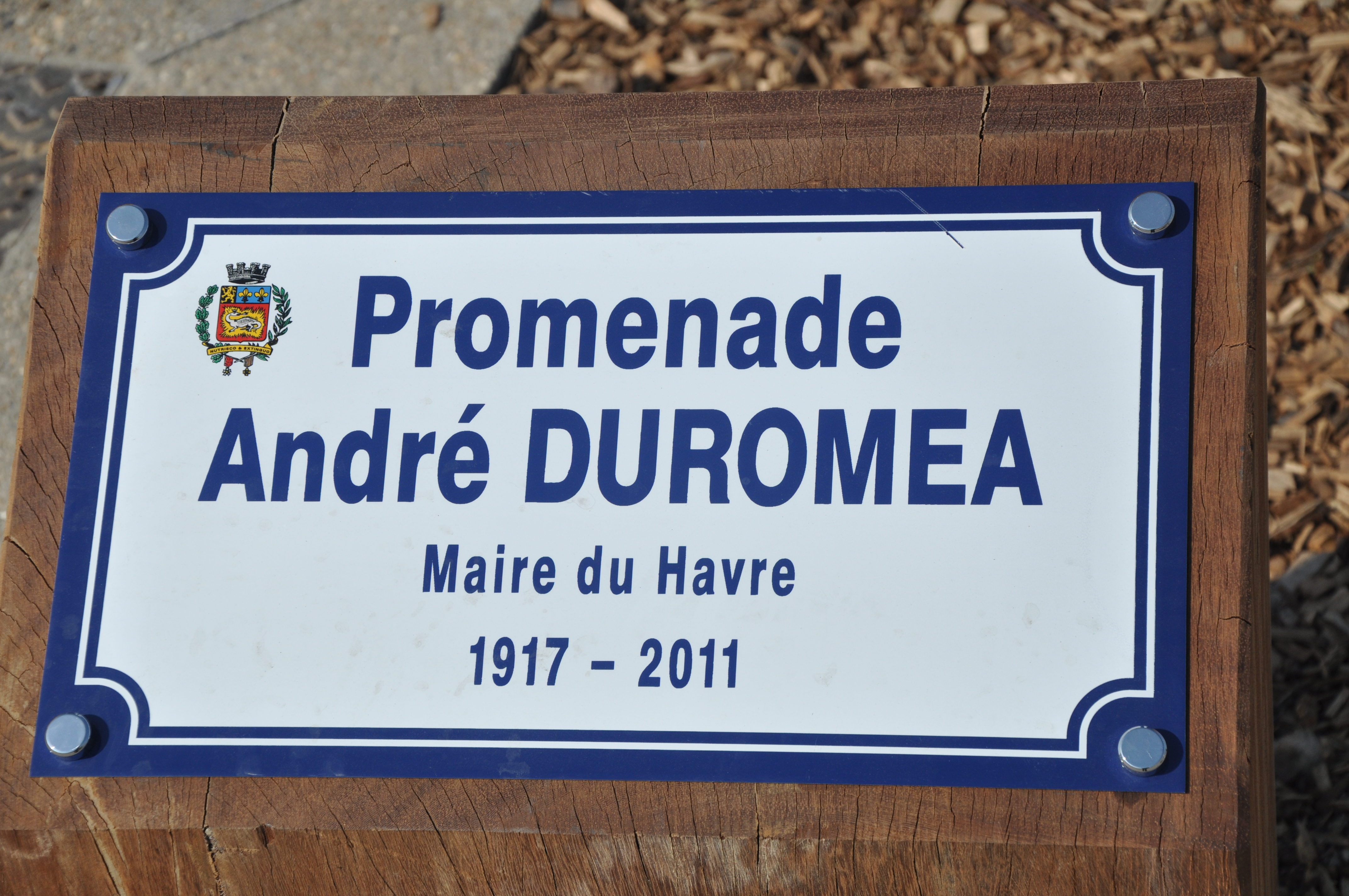 Le Havre (France, Normandy), plaque of mayor André Duroméa